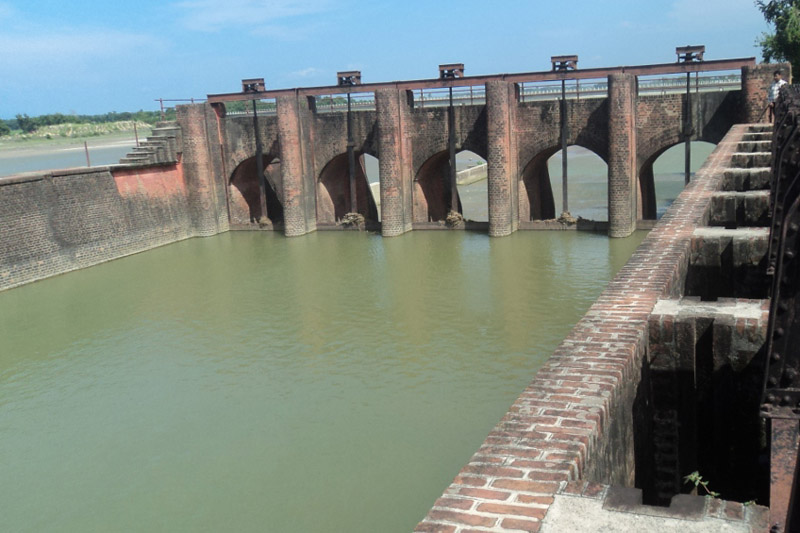 The Chandra Nahar Canal is an irrigation canal established in the northeastern Saptari district of Nepal by Chandra Shumsher Jang Bahadur Rana, one of the Prime Ministers during the Rana era (1846–1951) of Nepal, was the first canal in the country. It originated from the Triyuga river at Fattepur.